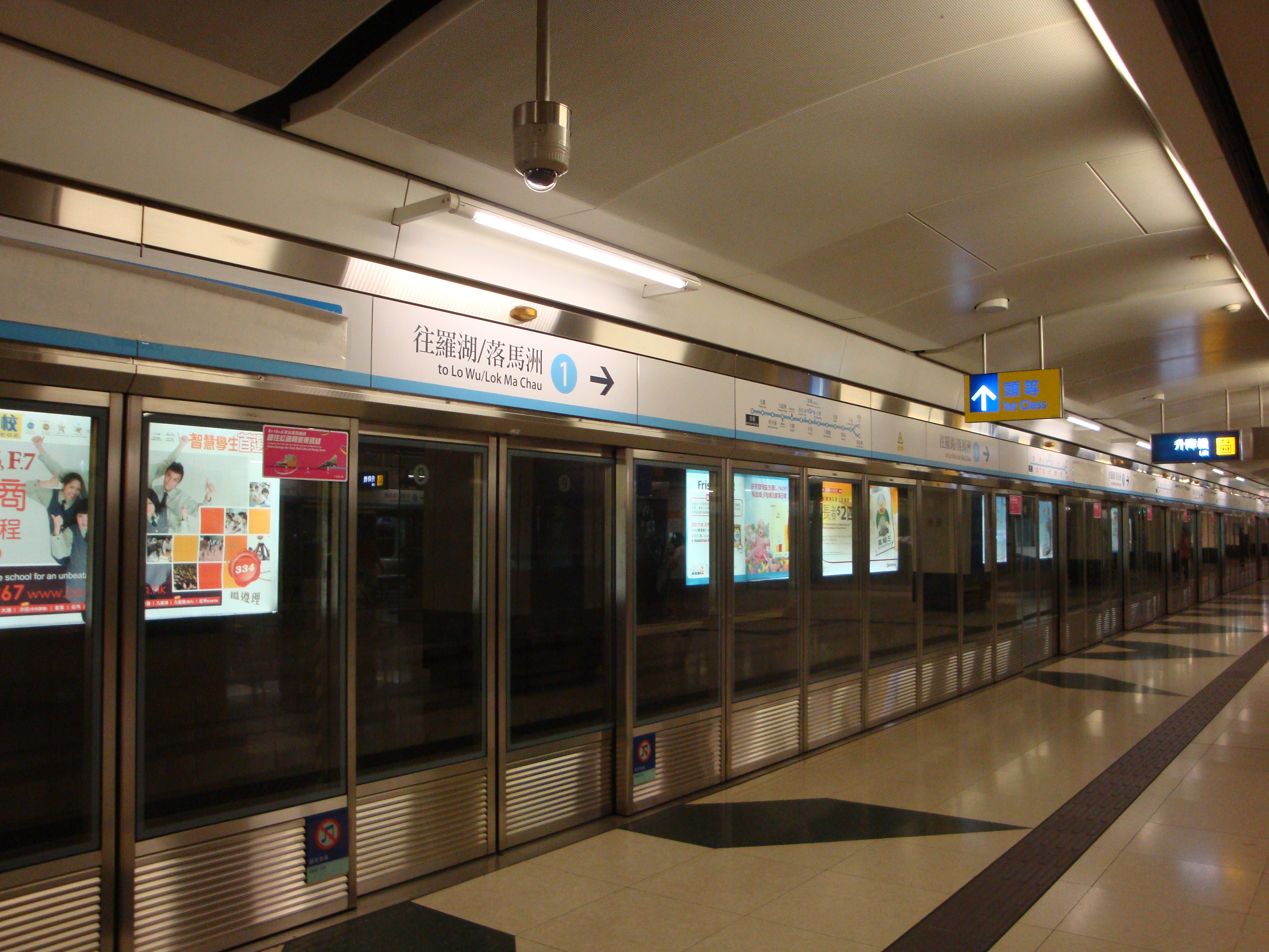 MTR ETS Platform 1 2009-8-15